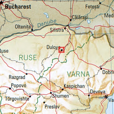 location of the city of Dulovo in Bulgaria